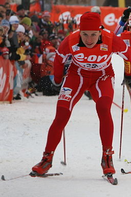 Justyna Kowalczyk (29) in the quaterfinals of Tour de Ski in Prague